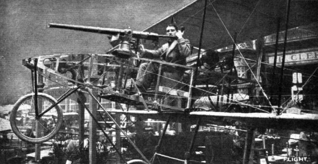 Original caption: "Voisin new type two-seater biplane, without elevator, fitted with 50-h.p. Gnome motor and French service mitrailleuse in front of passenger's seat" — Flight magazine image text